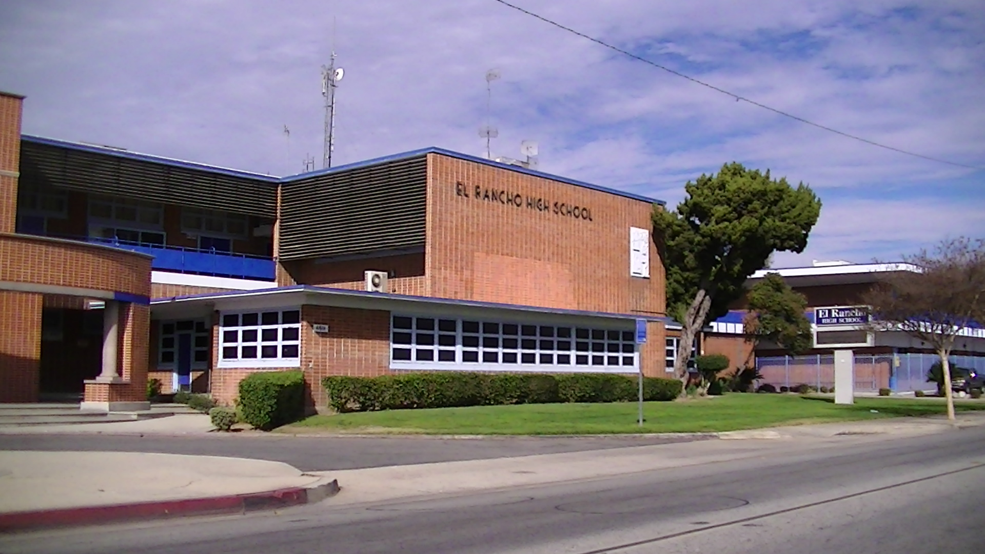 Front of El Rancho High School, Pico Rivera, California